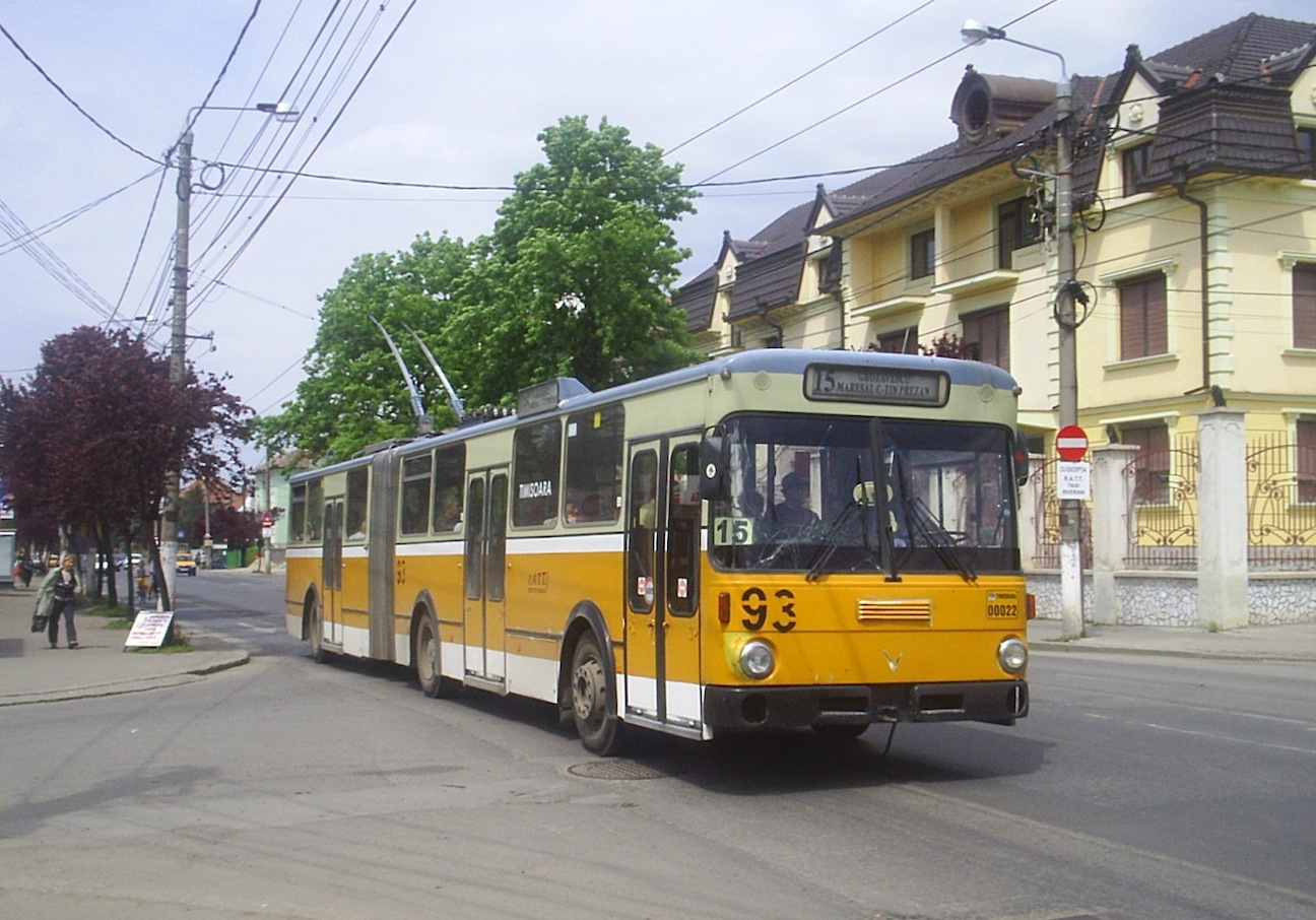 Timişoara 93, a 1986 Vetter 16SM trolleybus (with a Mercedes-Benz chassis), was ex-Esslingen 203, acquired secondhand in 2000. It is shown in service on route 15, repainted into Timişoara livery. It was retired/withdrawn in Timişoara in 2007 or 2008.